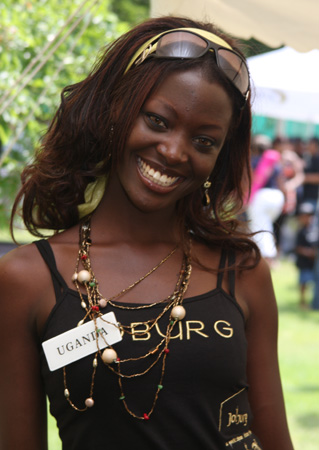 Miss Uganda 2008 Dora Mwima during Miss World 08